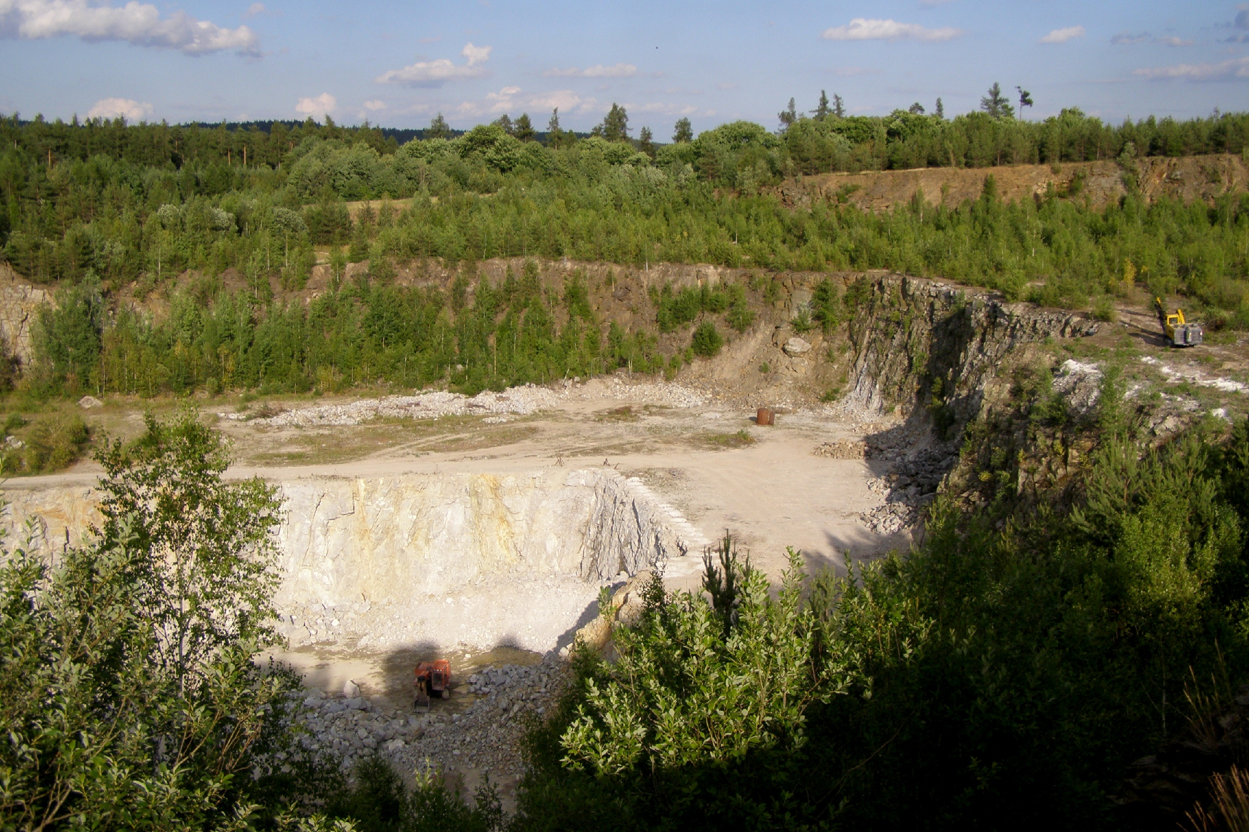 Příštpo-Královec. Granite and syenite quarry